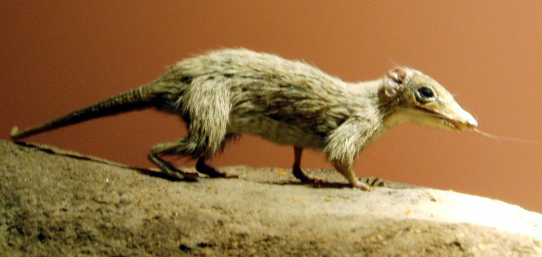 Megazostrodon, Natural History Museum, London, mammal